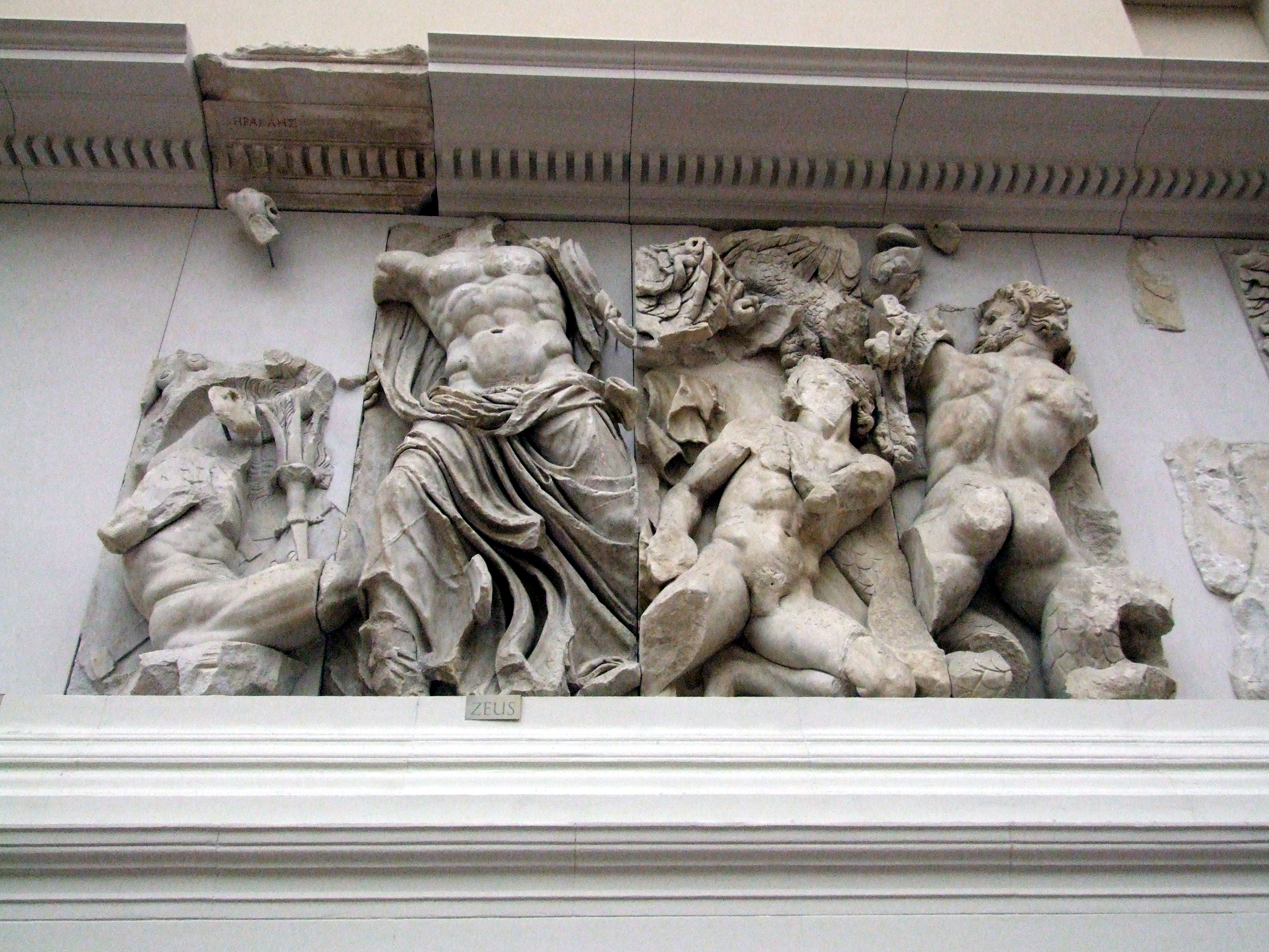 Zeus fighting Porphyrion, fragment from the Gigantomachy frieze (East) of the Pergamon Altar. Marble, early 2nd century BC. H. 2.3 m (7 ft. 6 ½ in.). Pergamon Museum in Berlin.